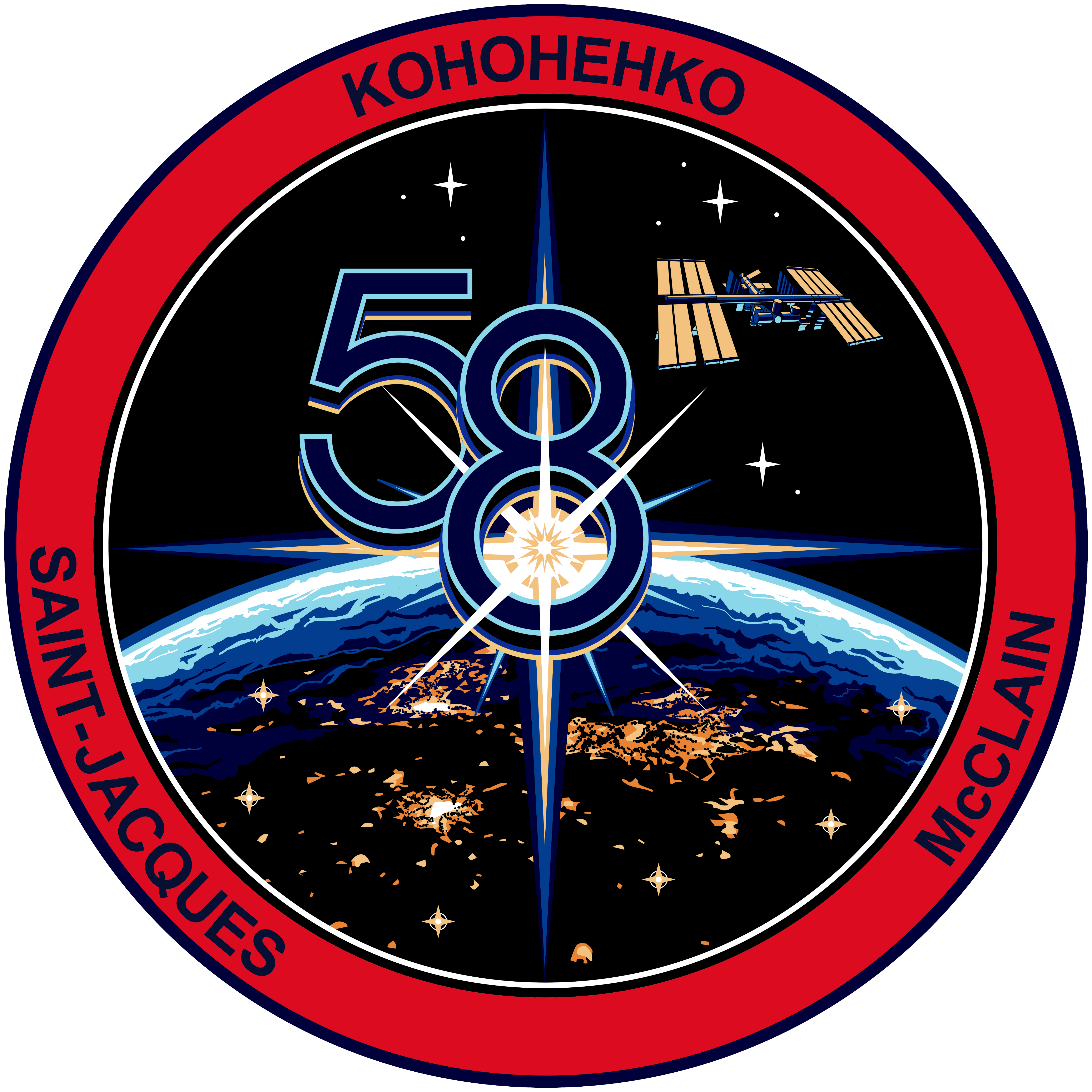 The official insignia for the three-member Expedition 58 crew with Anne McClain of NASA, Oleg Kononenko of Roscosmos and David Saint-Jacques of the Canadian Space Agency.